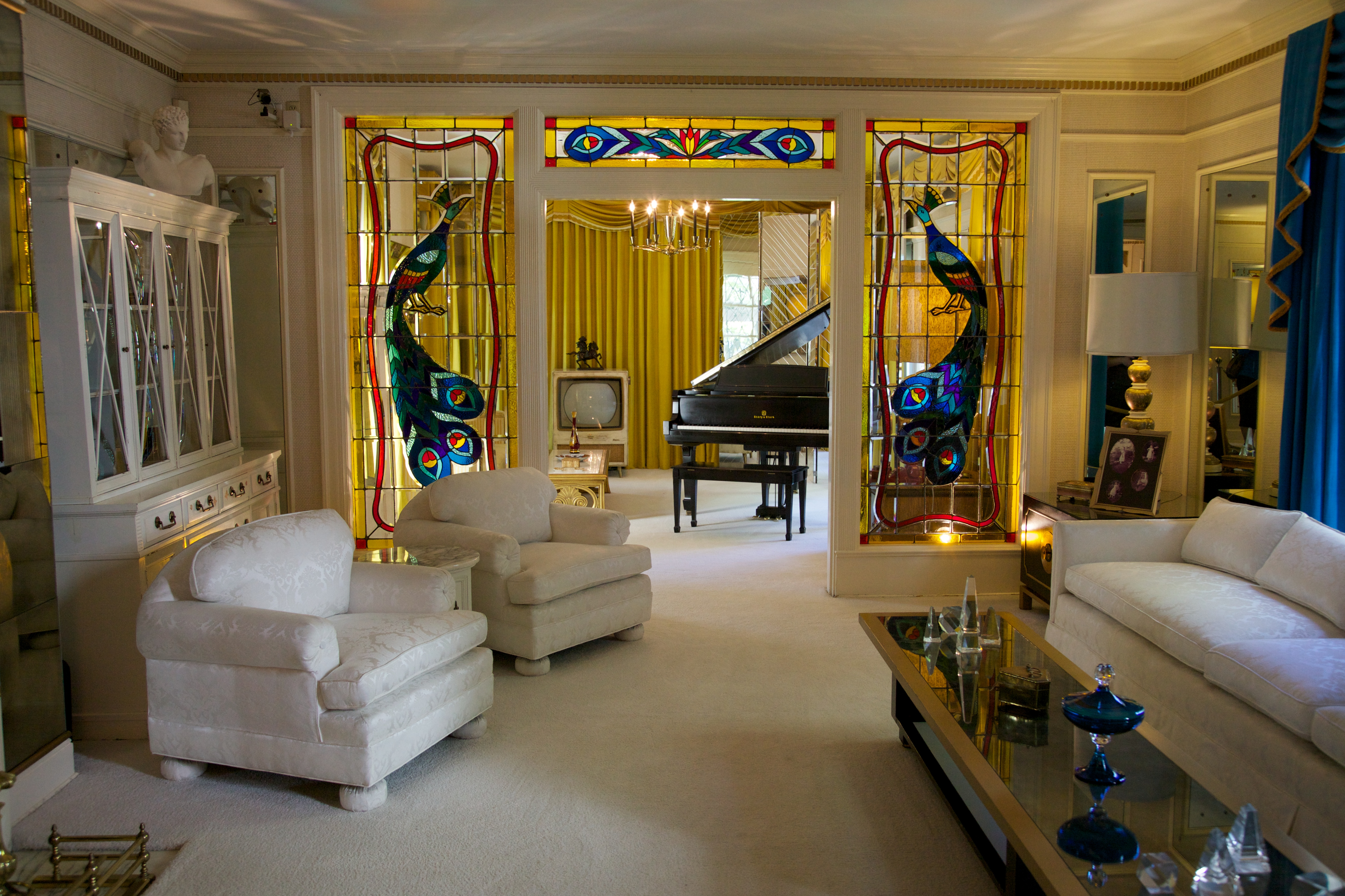 Graceland Living Room in Memphis, Tennessee